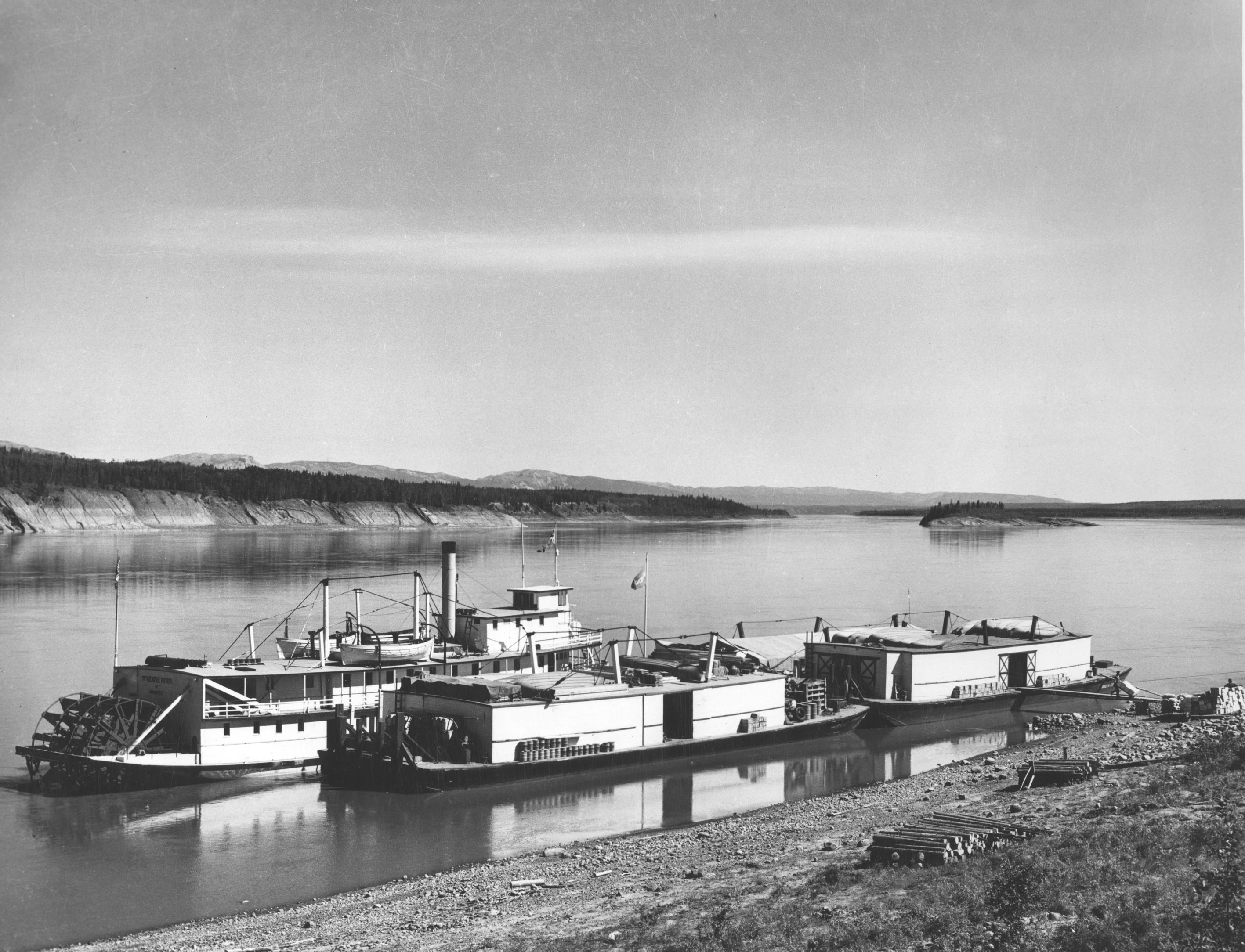 Sternwheeler Mackenzie RIver and 3 barges at Fort Wrigley in 1946. Original caption: “Wrigley Caption: The farther north the boats move along the river to the Arctic Ocean, the less freight remains. Here at Fort Wrigley the tonnage of the stern-wheeler S.S. Mackenzie River and her three barges has been substatially reduced. They are seen in this photo getting to push off with lightened loads and smoother waters for the next stop at Fort Norman Wells.[1946] 745.26 Kb 9.45 x 7.23 inches Credit: G. Zuckerman/NWT Archives/N-1979-012-0005”